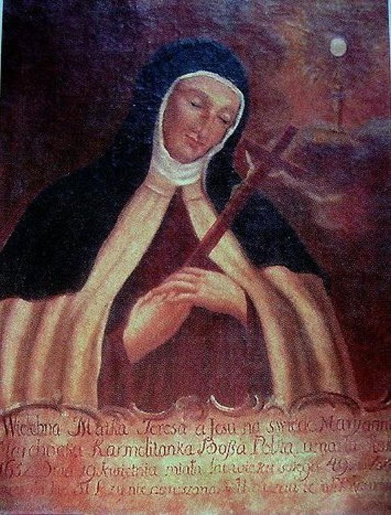 Anna Maria Marchocka depicted holding a cross